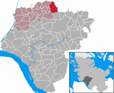 This map shows the area of the municipality Reher in the Kreis (district) Steinburg, Schleswig-Holstein, Germany.